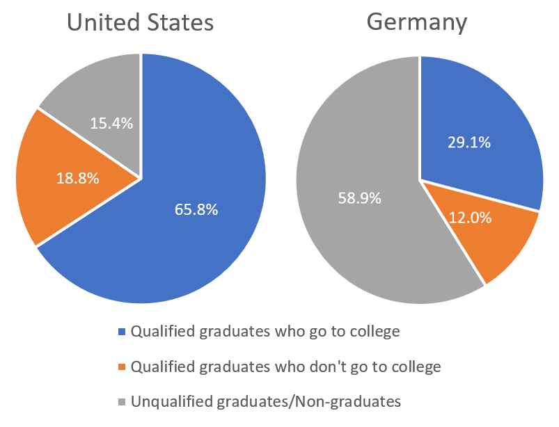 data sources